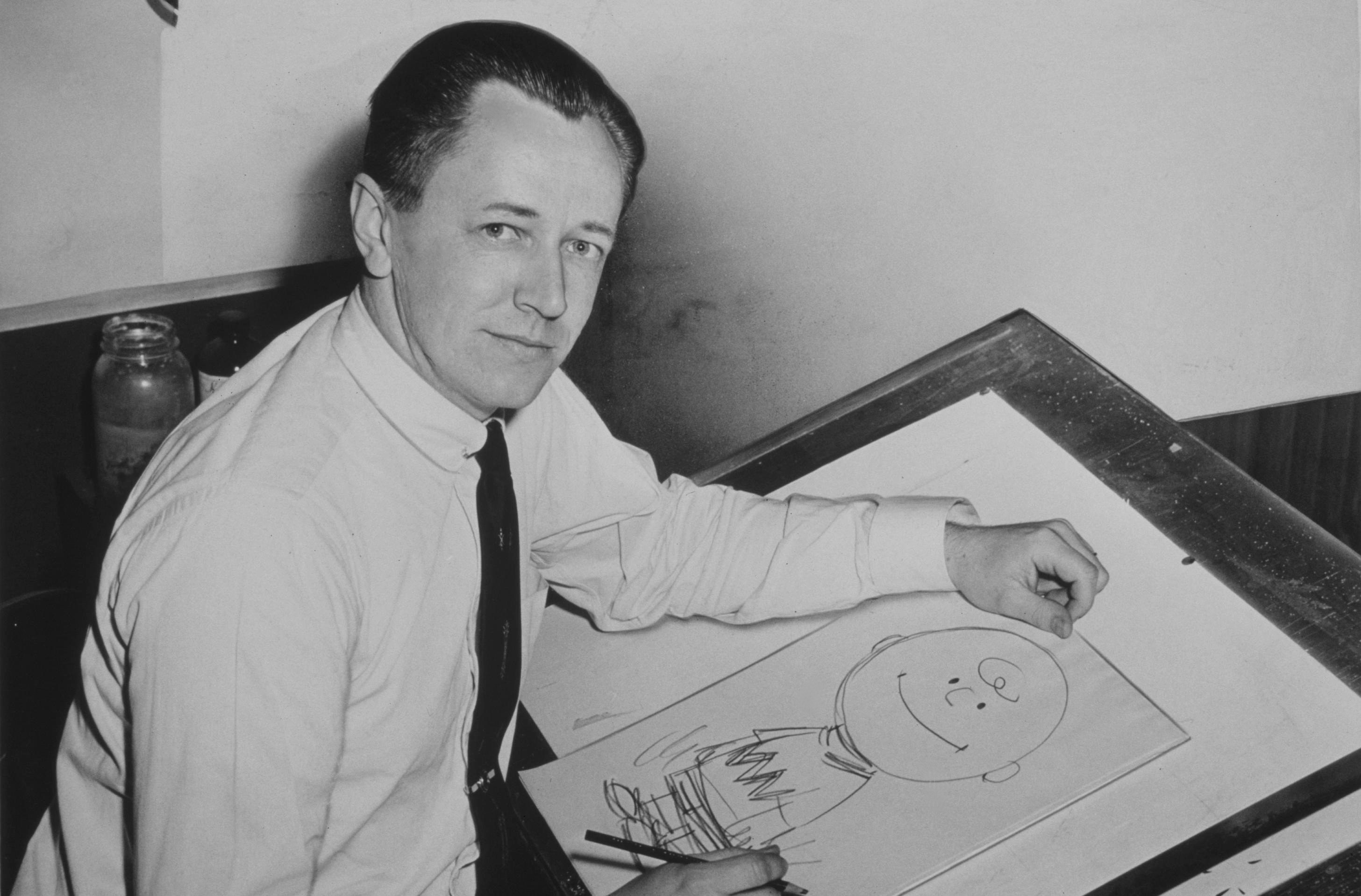 Charles Monroe Schulz ( November 26, 1922 – February 12, 2000) was a 20th-century American cartoonist best known worldwide for his Peanuts comic strip.